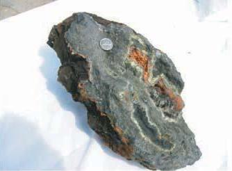 Sulfide Chimney piece from Mystic Mound, Magic Mountain, Explorer Ridge. Red bands are from oxidation of iron in sulfide.